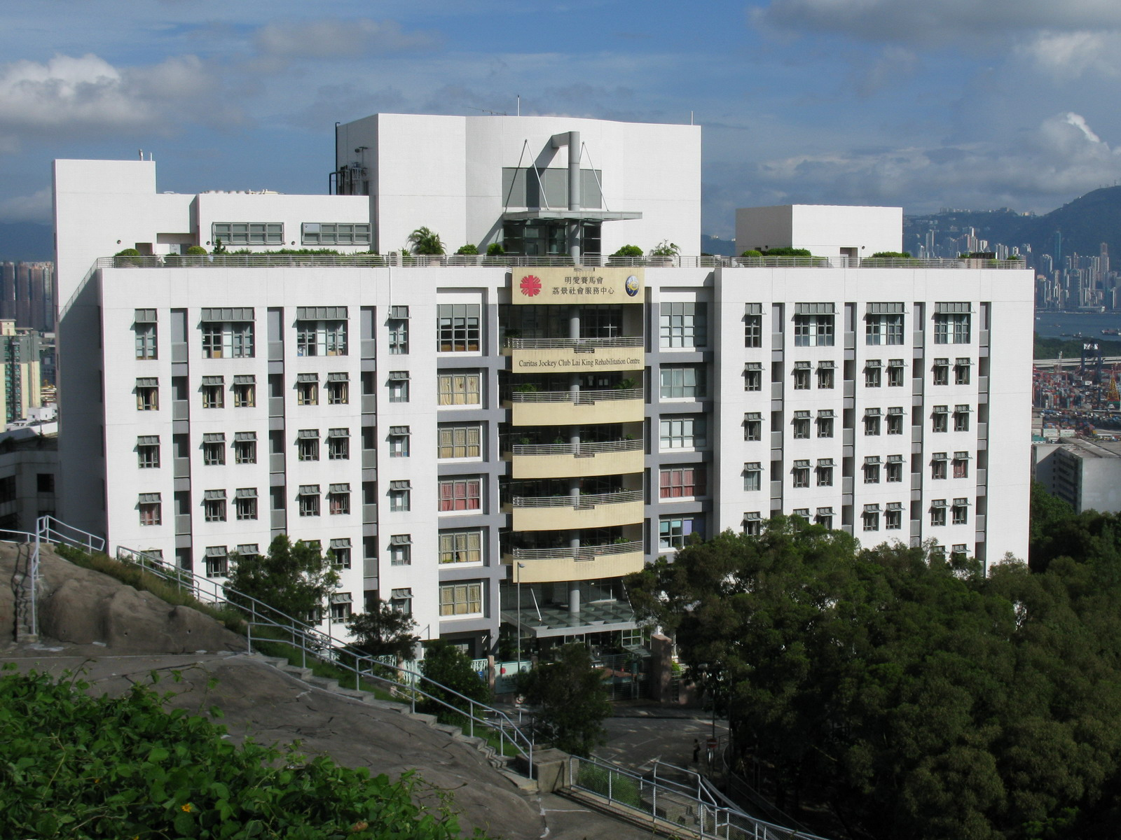 Caritas Jockey Club Lai King Rehabilitation Centre